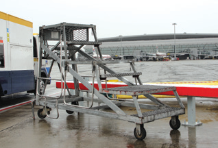 Aircraft Services Stairs at Hong Kong International Airport help the maintenance technician to reach the bottom of aircraft.